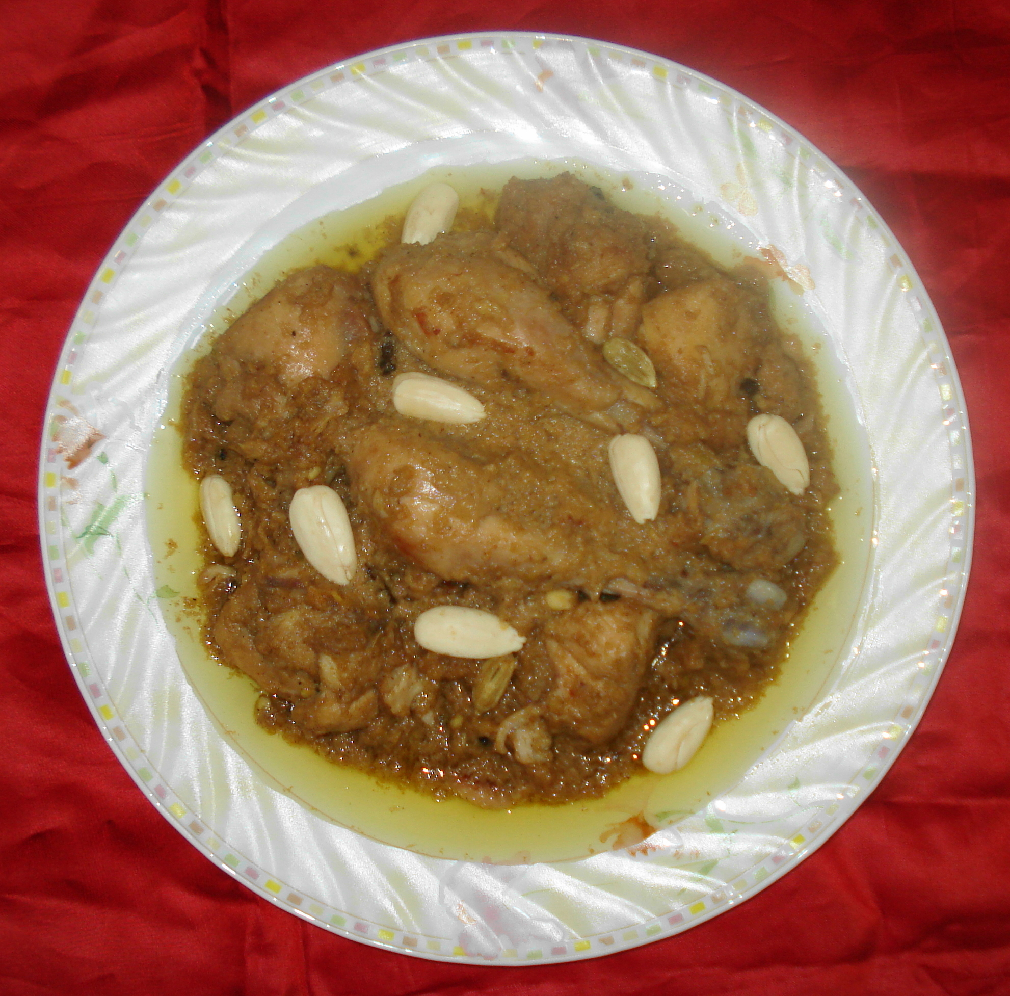 Chicken White Qorma/Korma